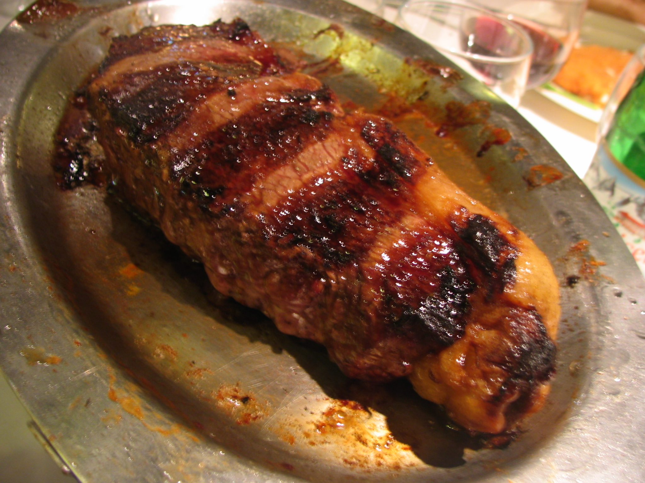 Bife de chorizo, argentine cut of beef